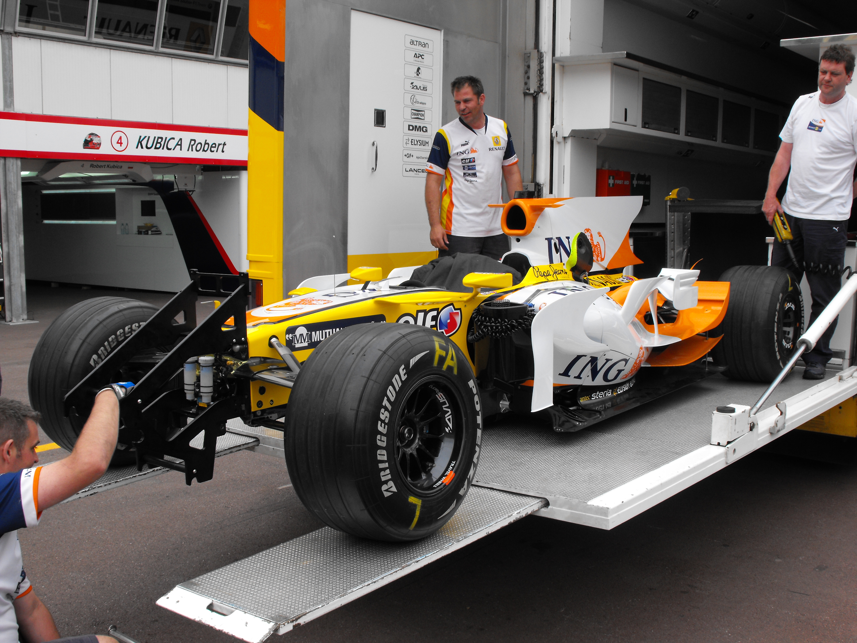 Two Renault R28 Formula 1 racing cars being unloaded from the Renault trailer at the pit lane at the 2008 Monaco Grand Prix.